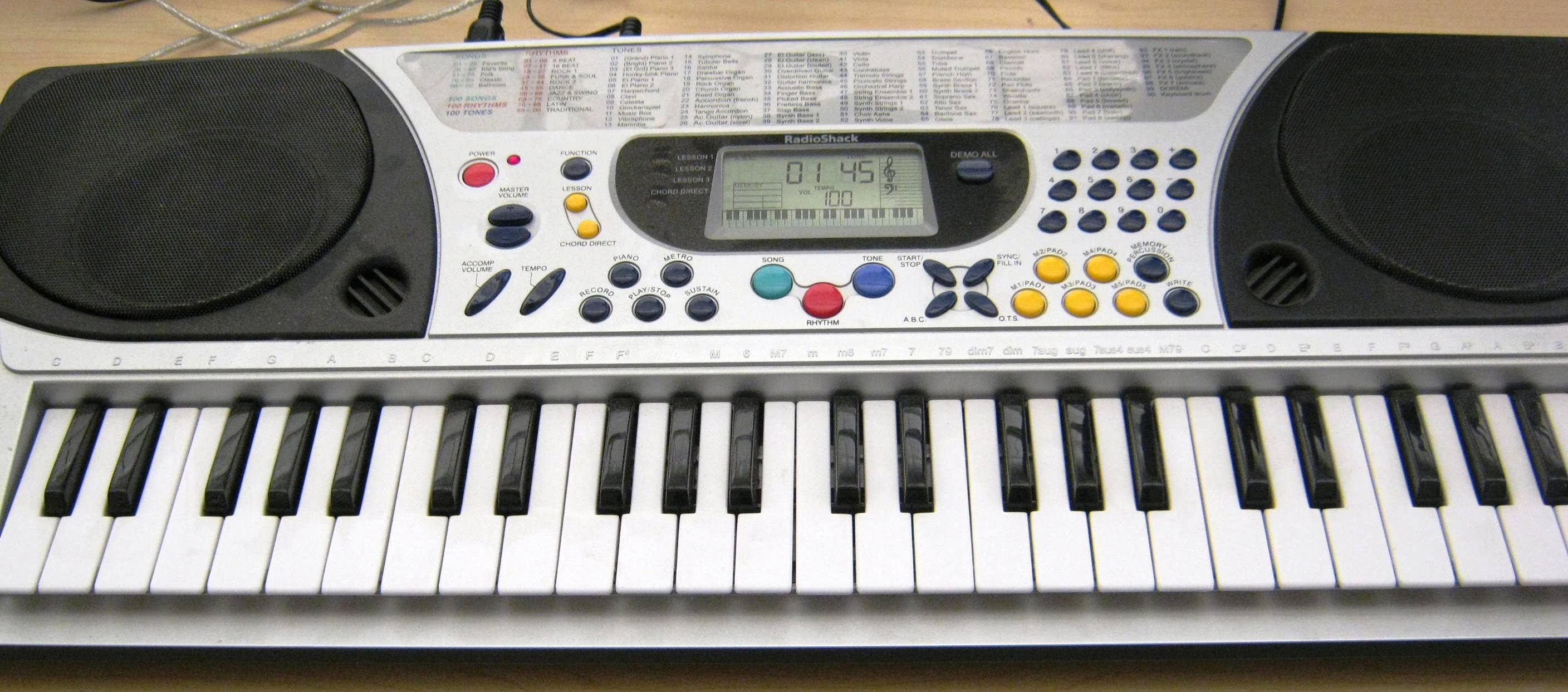 The little keyboard